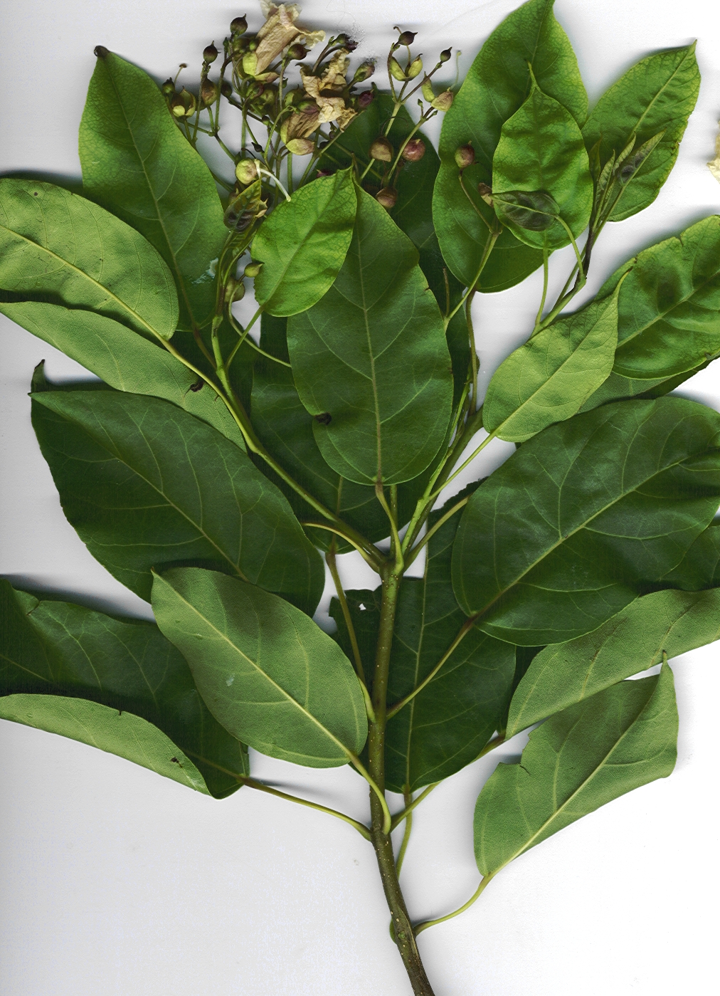 Catalpa longissima (branch). Location: Maui, Waikapu Rd